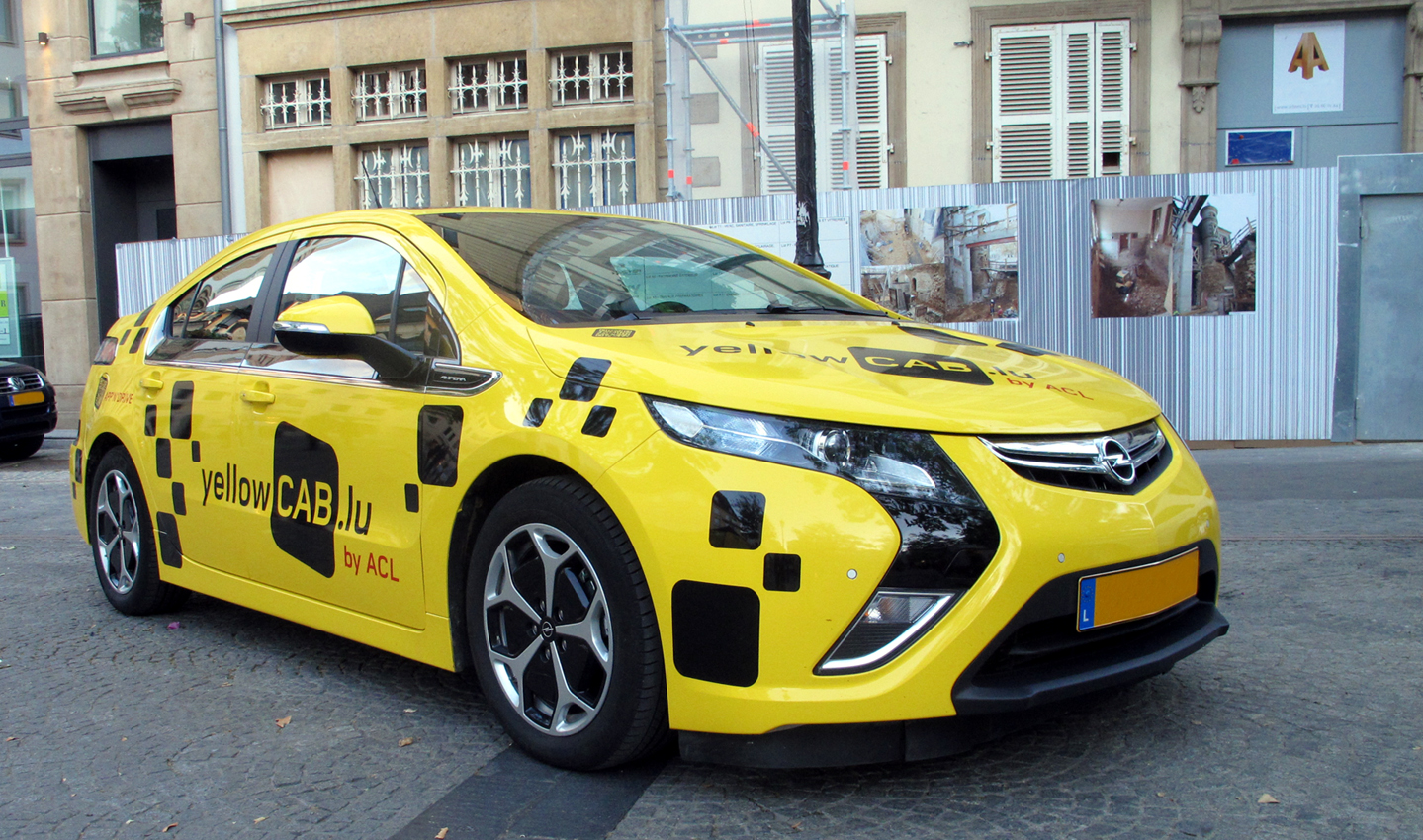 New Taxi car YellowCab by Automobile Club Luxembourg 2012